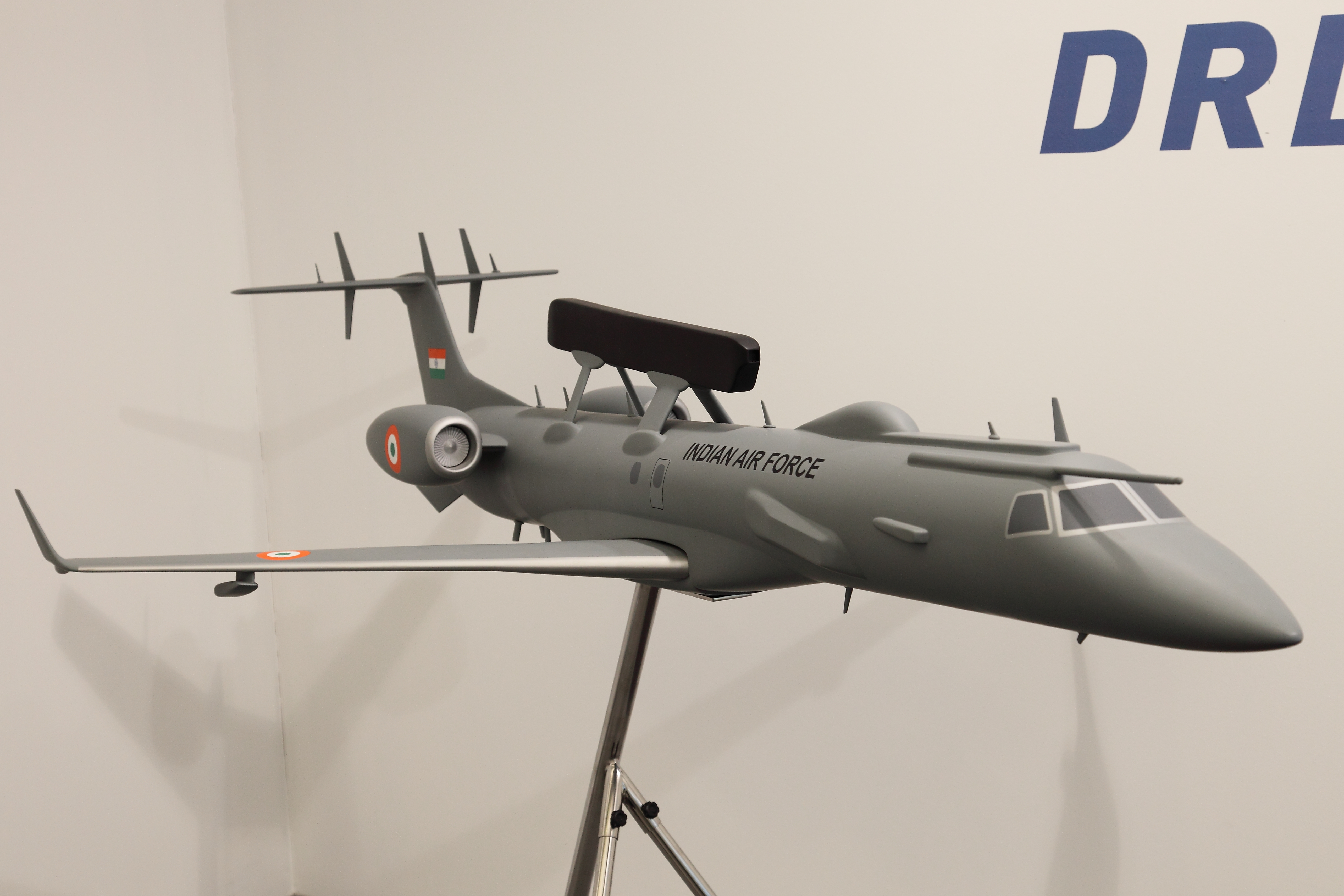 ILA Berlin Air Show 2012, Model of DRDO AEW&CS : Embraer ERJ 145i; Airborne early warning and control; Embraer (platform) DRDO’s Bangalore-based Centre for Airborne Systems (CABS) (radar); Indian Air Force; development for an Airborne Early Warning and Control (AEWAC) system; The DRDO AEWACS program aims to deliver three radar-equipped surveillance aircraft to the Indian Air Force. The aircraft platform selected was the Embraer ERJ 145.